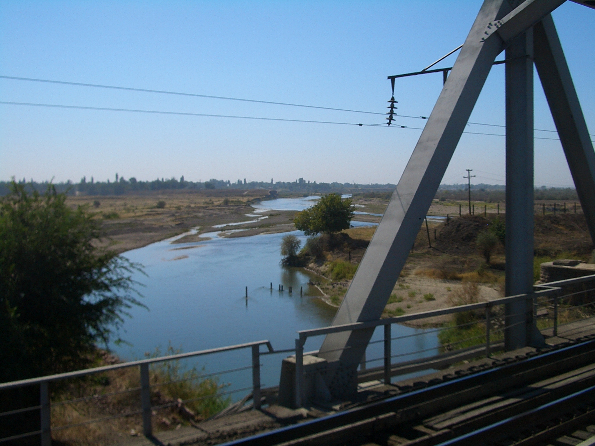 Crossing the Shu (Chuy) river just north of the Shu station, Kazakhstan